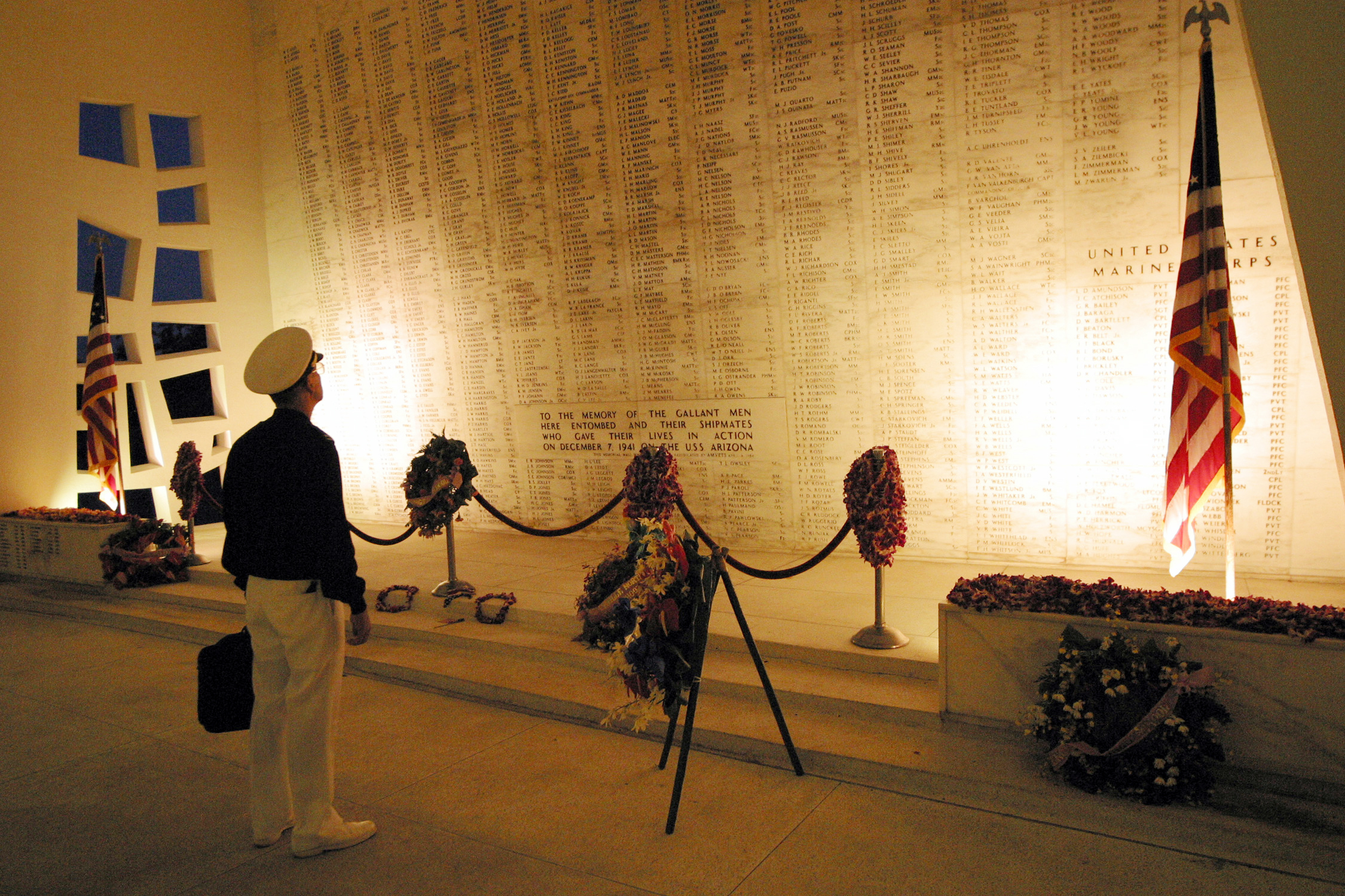 Pearl Harbor, Hawaii (Dec. 5, 2002) -- A participant of the upcoming Dec. 7th USS Arizona commemoration ceremony, hosted by Commander, Navy Region Hawaii, scans the 1177 names of Arizona crewmembers on the huge marble wall in the shrine room of the memorial prior to rehearsal. The ceremony will feature guest speaker senior Senator Daniel Inouye of Hawaii and the attendance of 16 Pearl Harbor survivors and their family members. A wreath-laying by service members from each branch of the U.S. military services, the Governor of Hawaii, the Pearl Harbor Survivors Association, and more than 20 veteran's groups will also be a part of the ceremony. The commemoration is the 61st since the Dec. 7, 1941 attack on Pearl Harbor and is held to honor the men and women who lost their lives that day. U.S. Navy photo by Photographer's Mate 1st Class William R. Goodwin. (RELEASED)